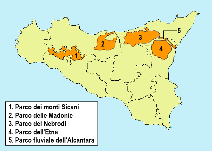 Map of regional natural parks in Sicily